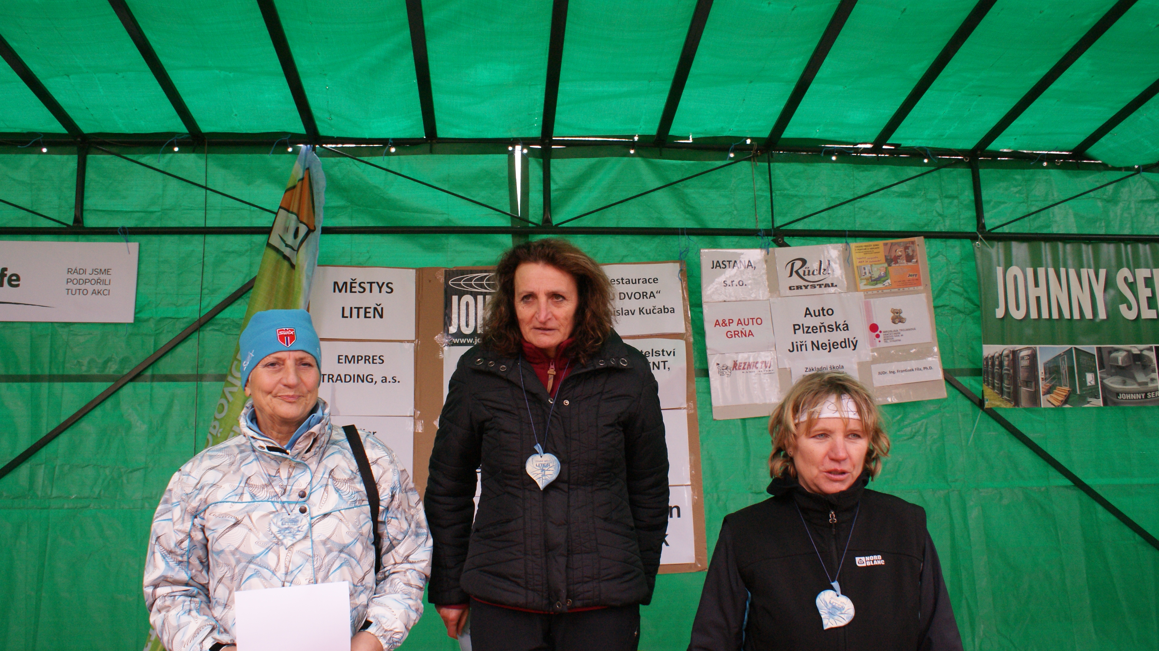 Liteň - running race